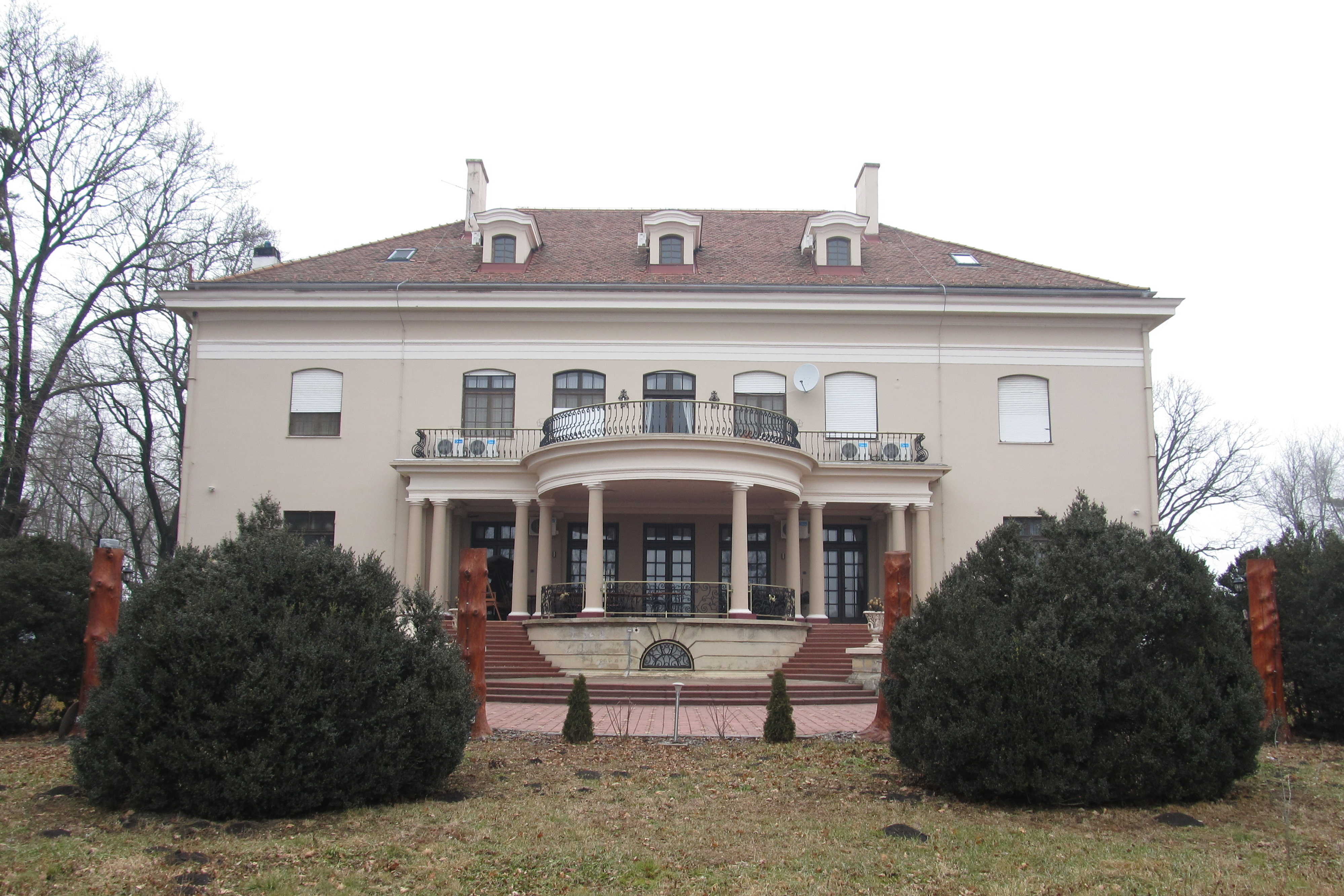 Neuhausen castle in Srpska Crnja - southern facade